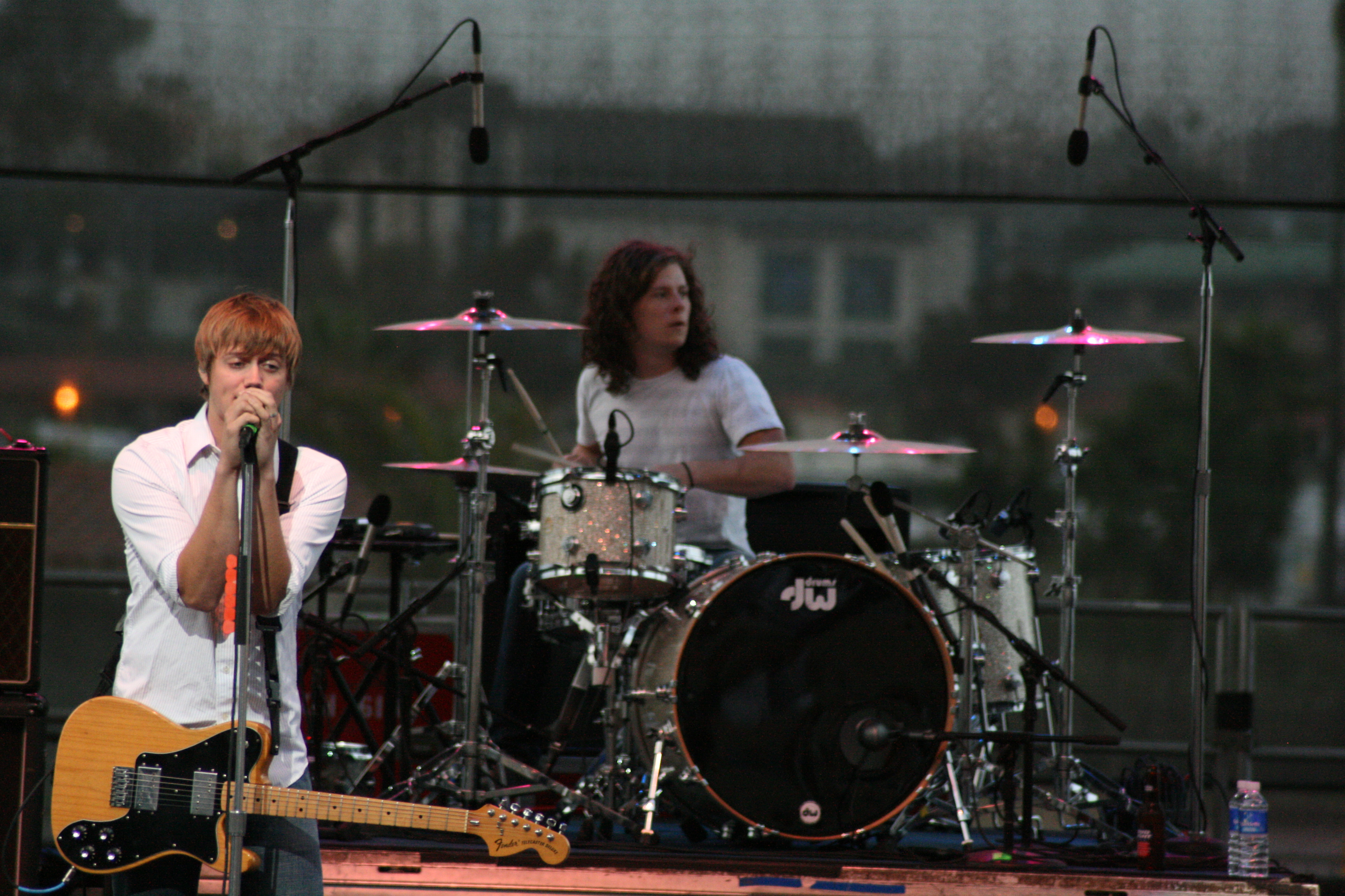 Cartel performing on June 25, 2008 in Del Mar, California